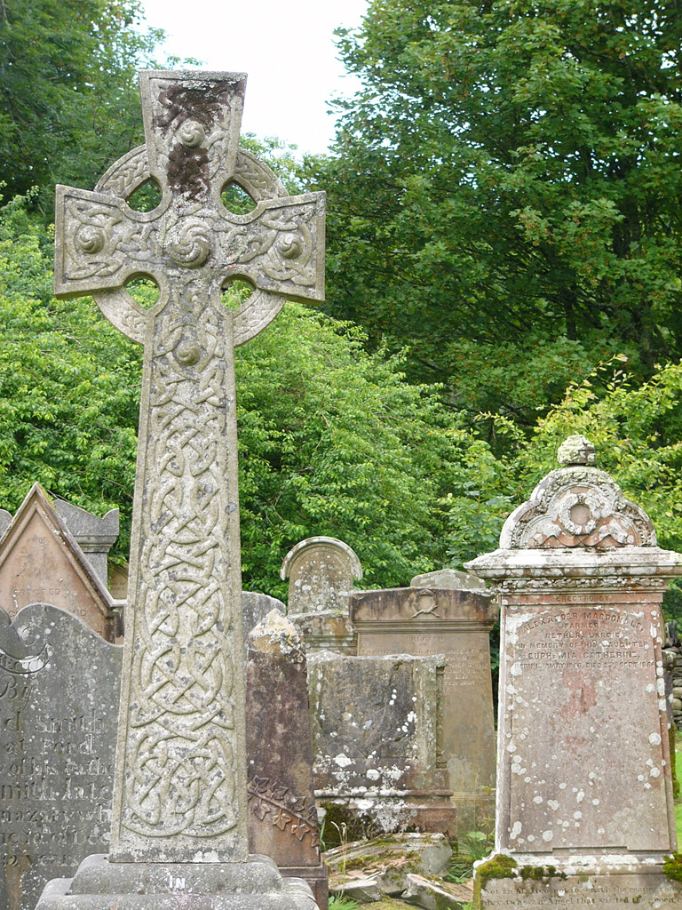 The graveyard in Kilmartin, Scotland.